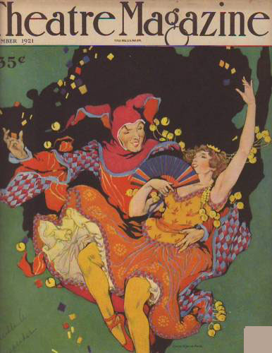 Cover to Theatre Magazine Featured in Clara_Elsene_Peck